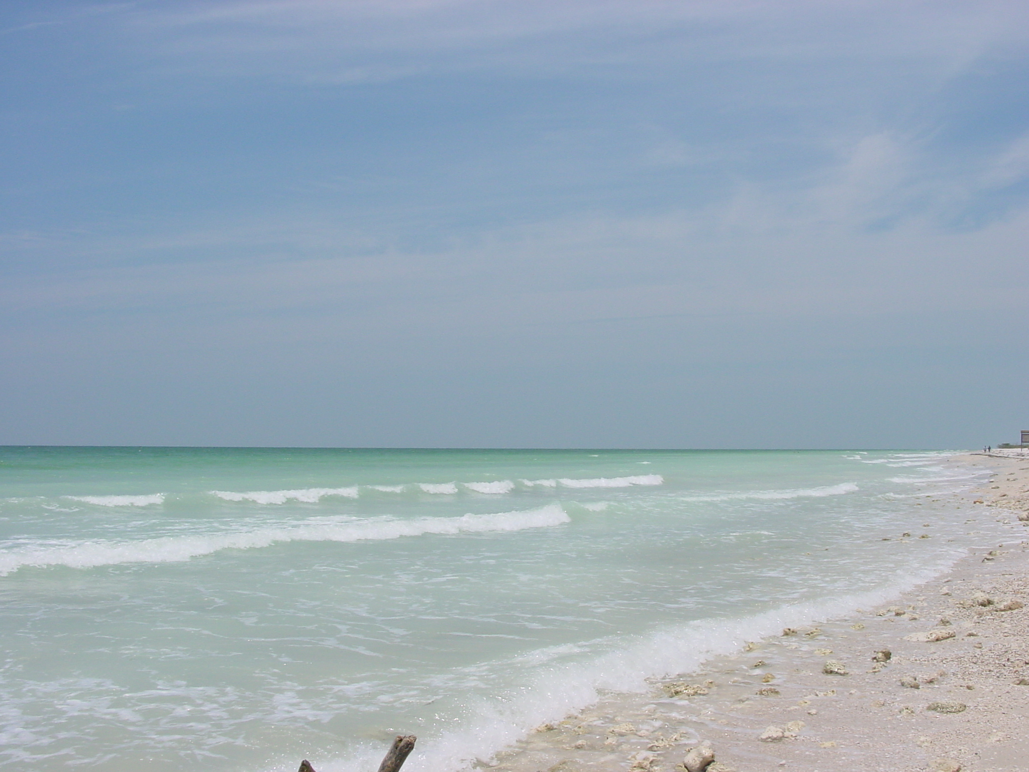 This photograph was taken at Honeymoon Island State Park, which is located in northwestern Pinellas County near Clearwater, FL.